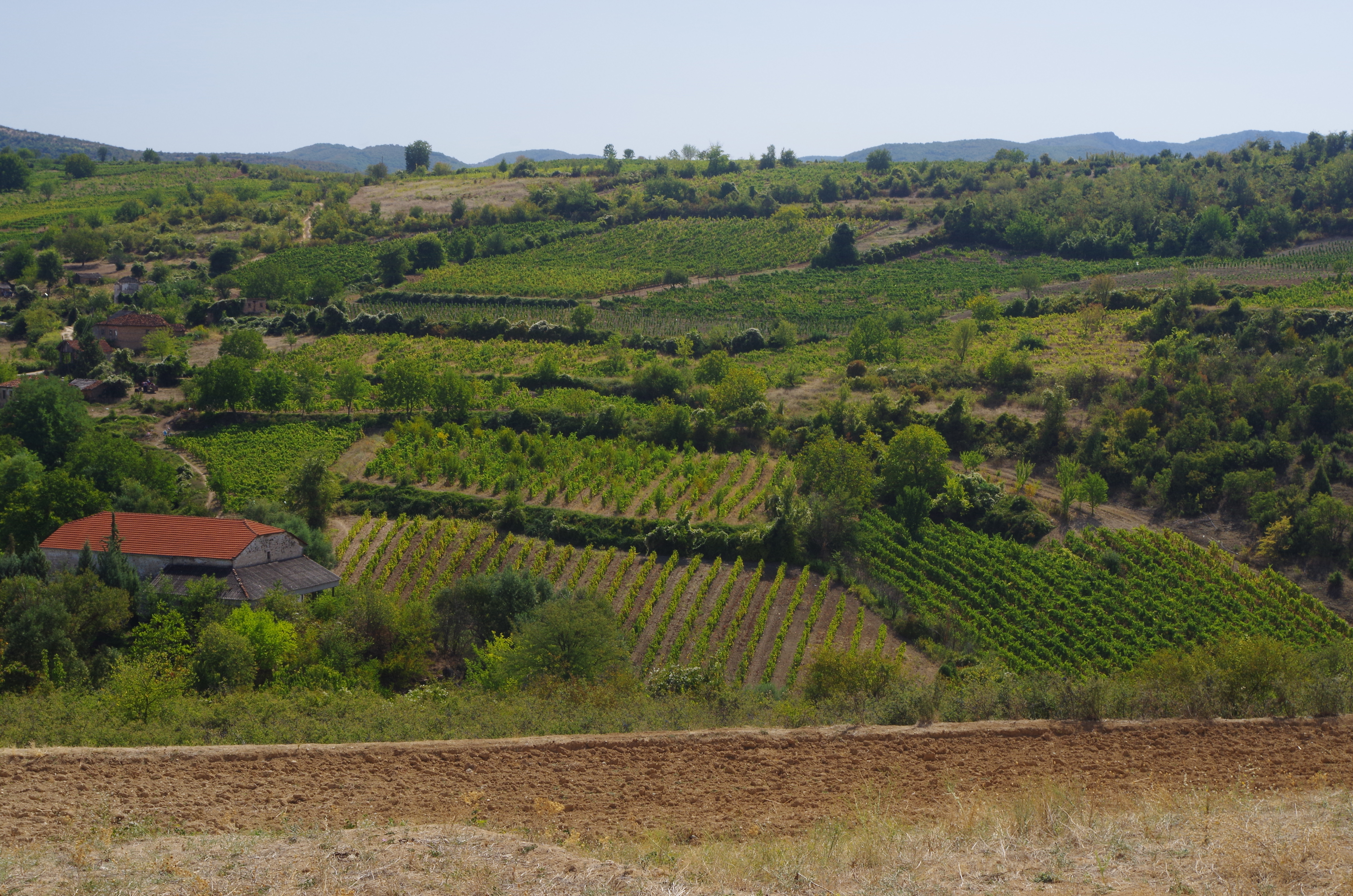 Vineyards near the village of Begnište